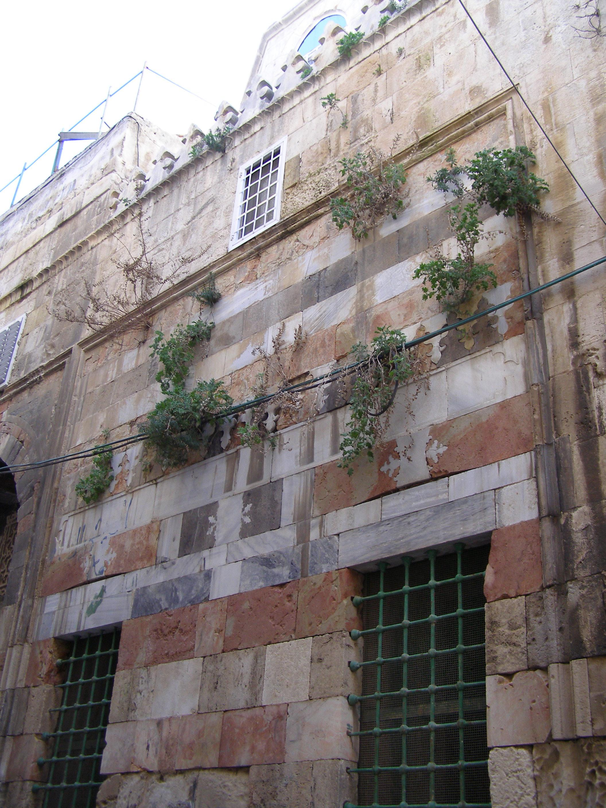 Old Jerusalem, At-Takiyyah ascent, The tomb of Tunshuk (The Arabic word "turba" means "tomb, tombstone." This term applies only to Muslim shrines located in Jerusalem).